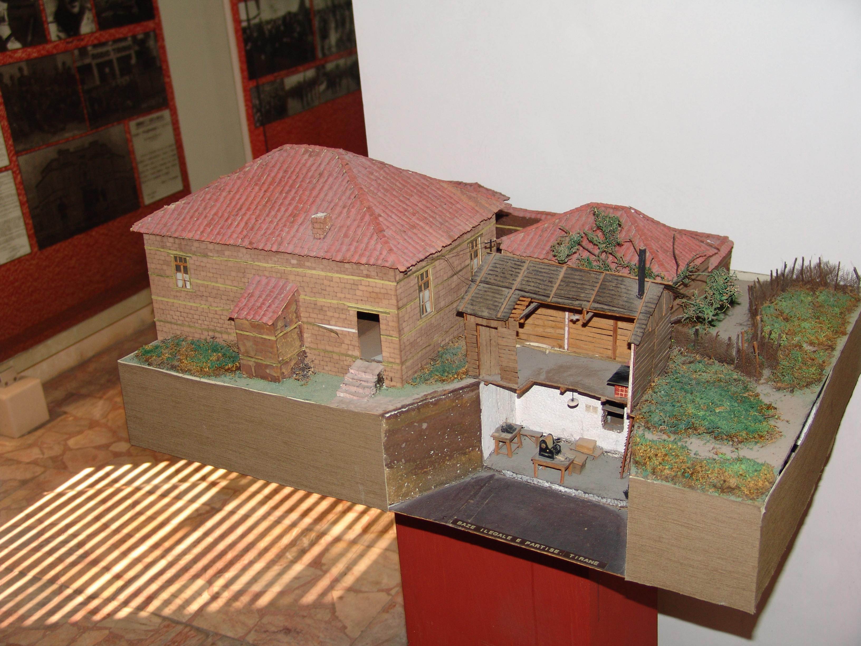 Old design of an Albanian house with a hidden room inside the object.